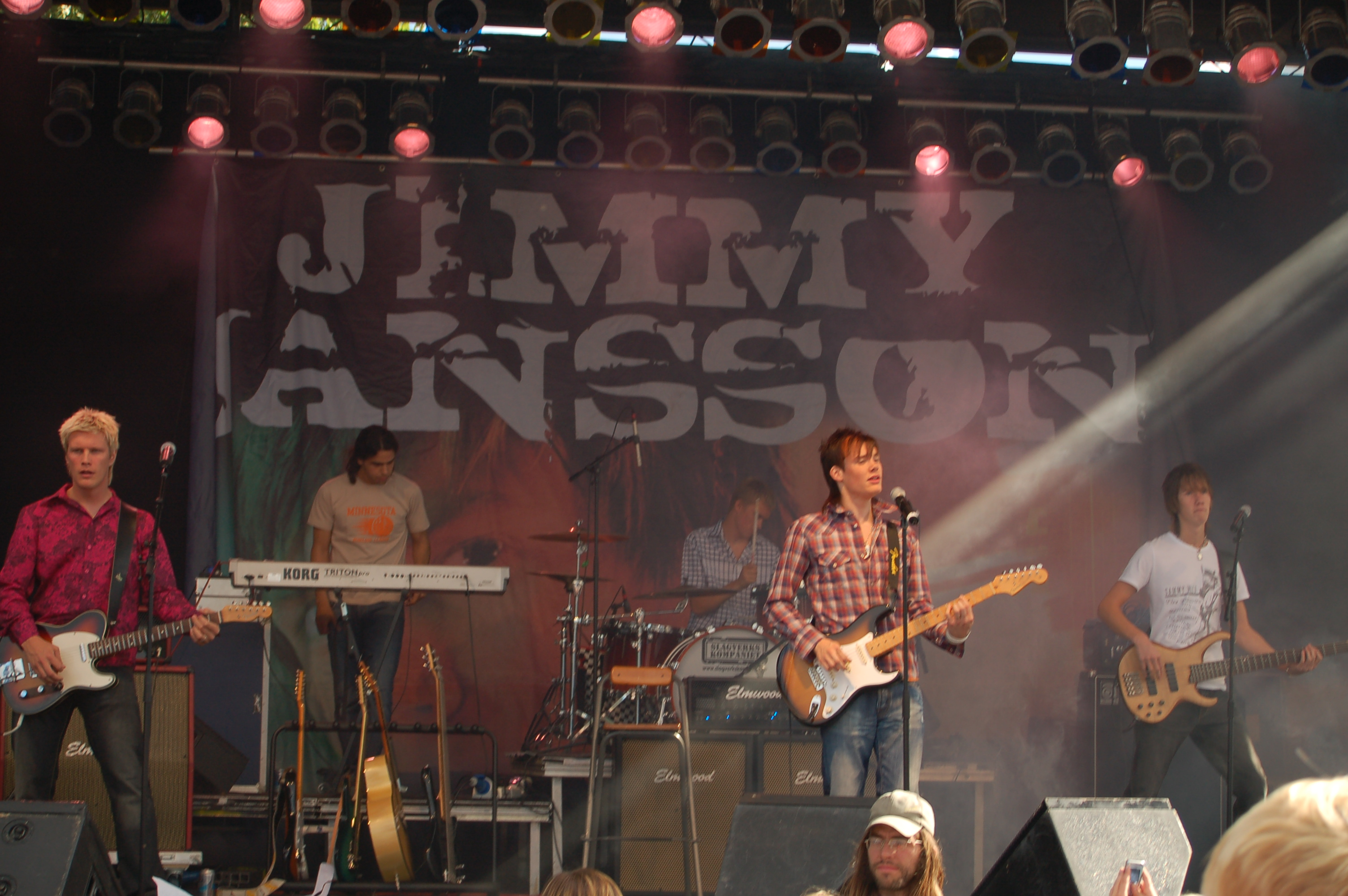 The Poets 2005